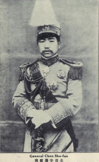 Chen Shufan, Bosheng (1885 - 1949)